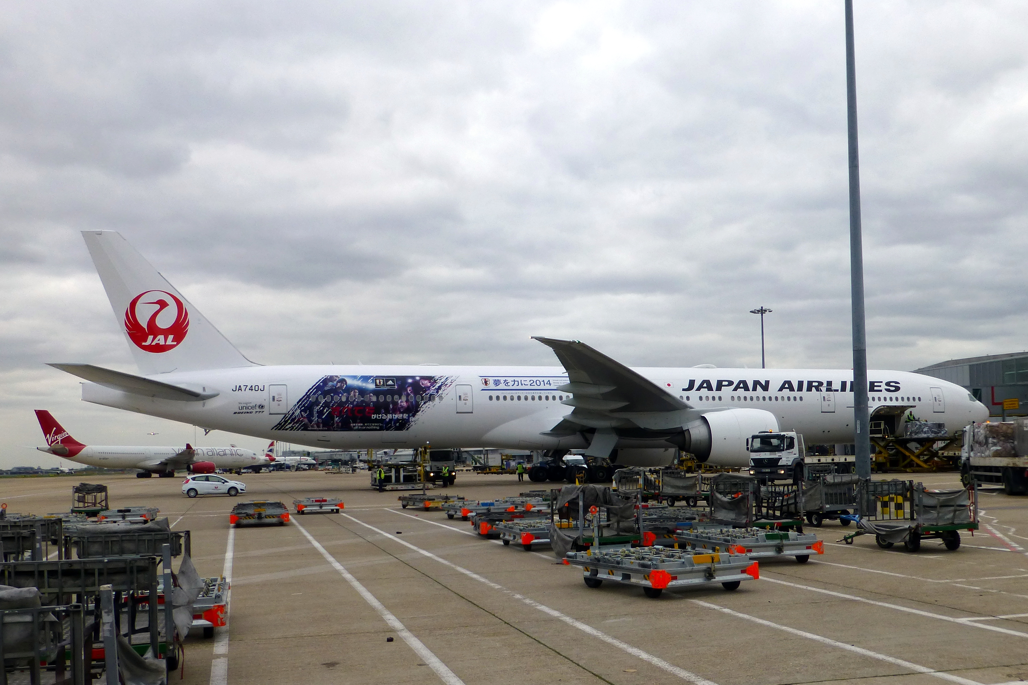 JA740J Boeing 777-300ER Japan Airlines on std 336 during its first visit with World Cup football theme logo.